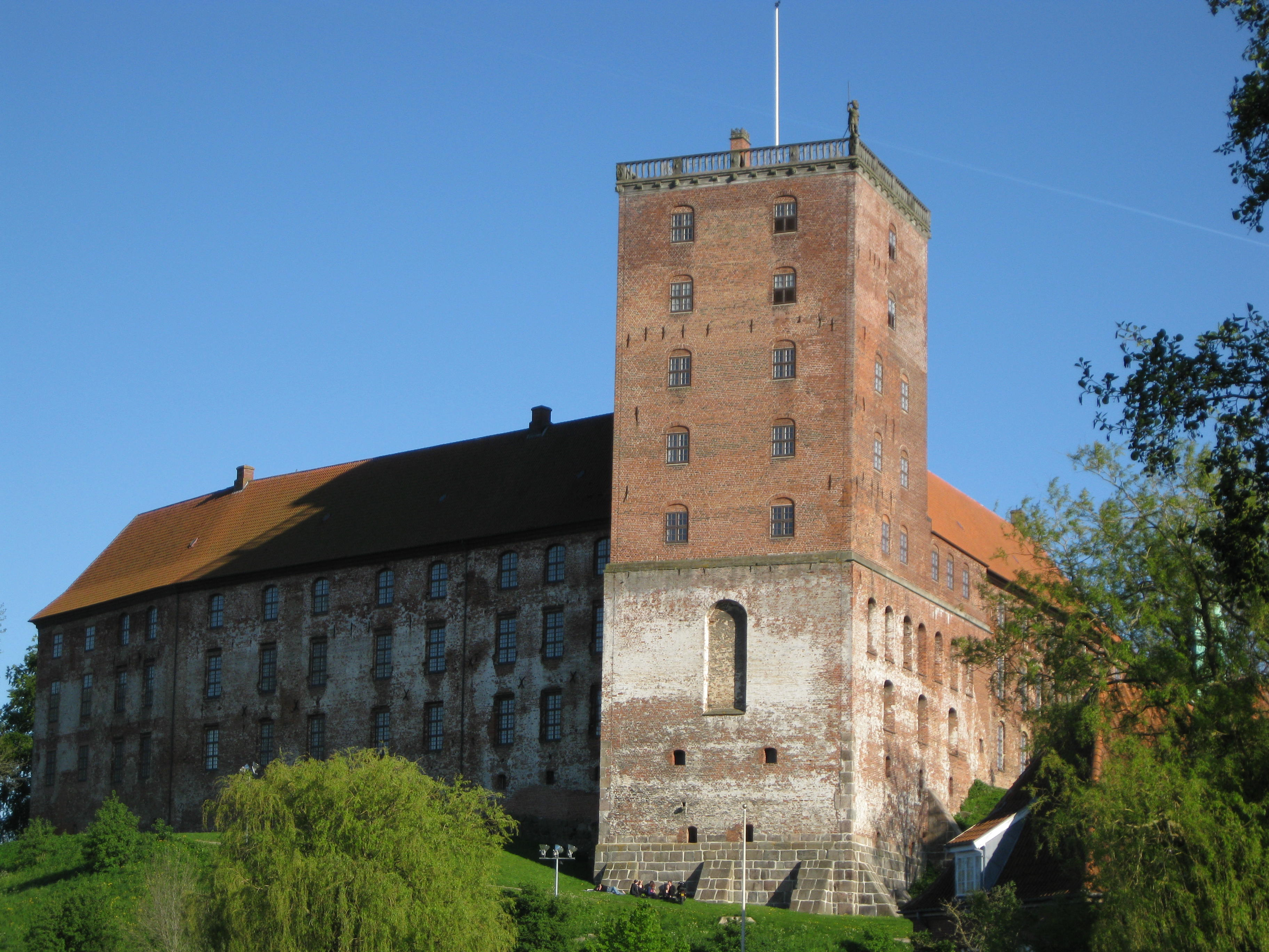 The castle "Koldinghus" in the city of "Kolding". It is located in South-Central Jutland, Denmark.